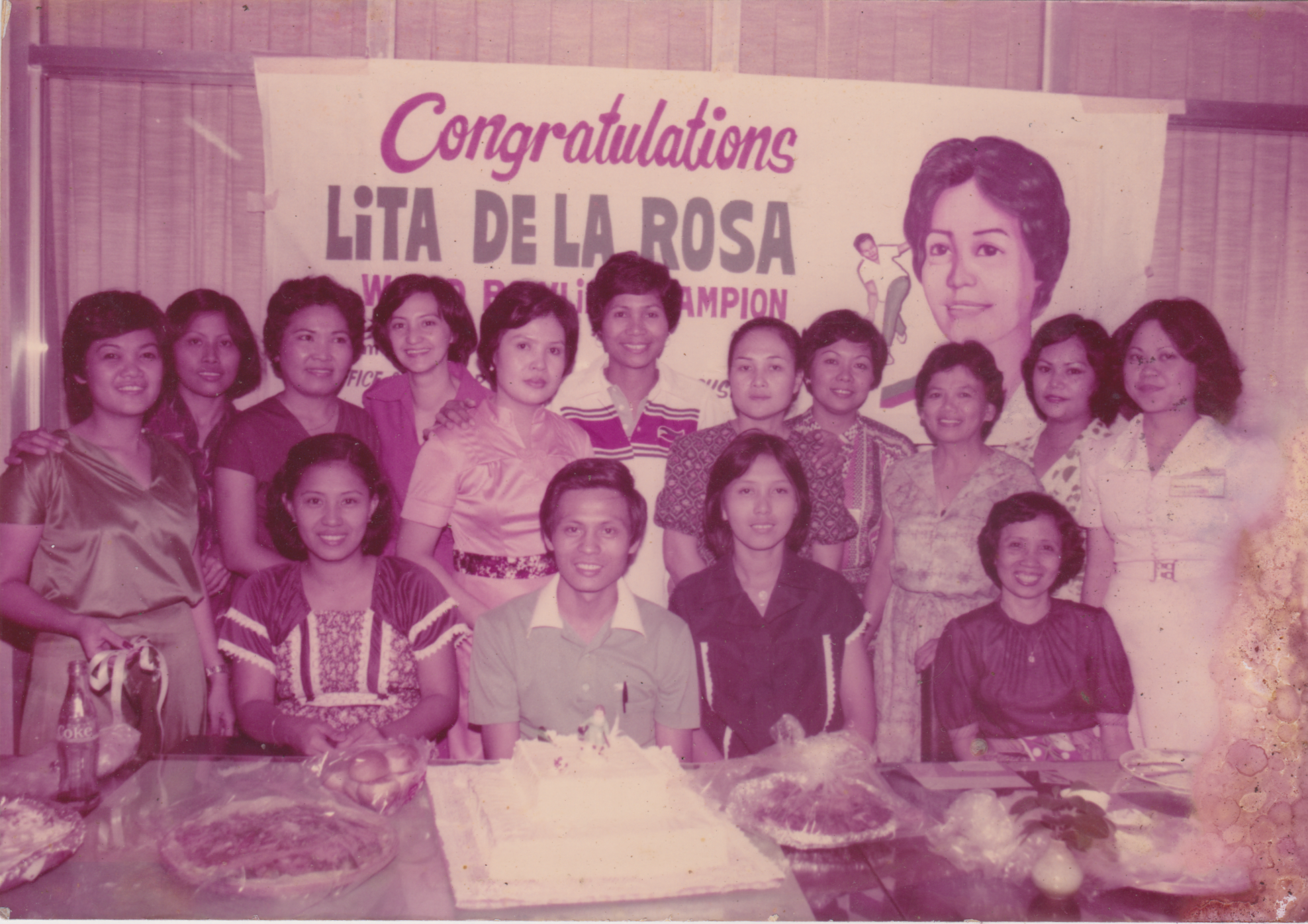 Welcome party to Lita dela Rosa for World Cup Bowling Championship. Taken at EDP, GSIS, Manila.